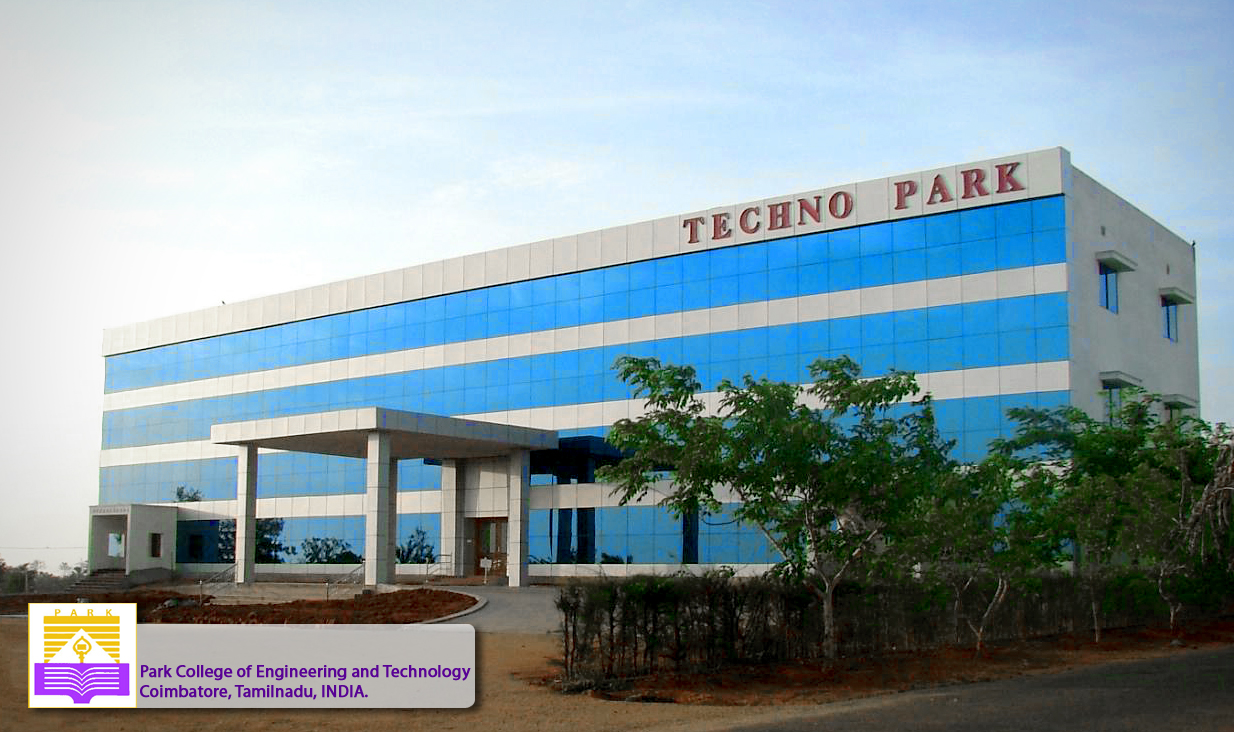 Techno Park